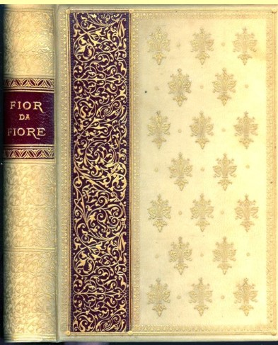 Raccolta opere di Dante